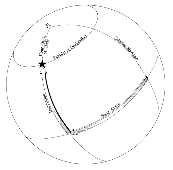 figure 1524c of APN2002